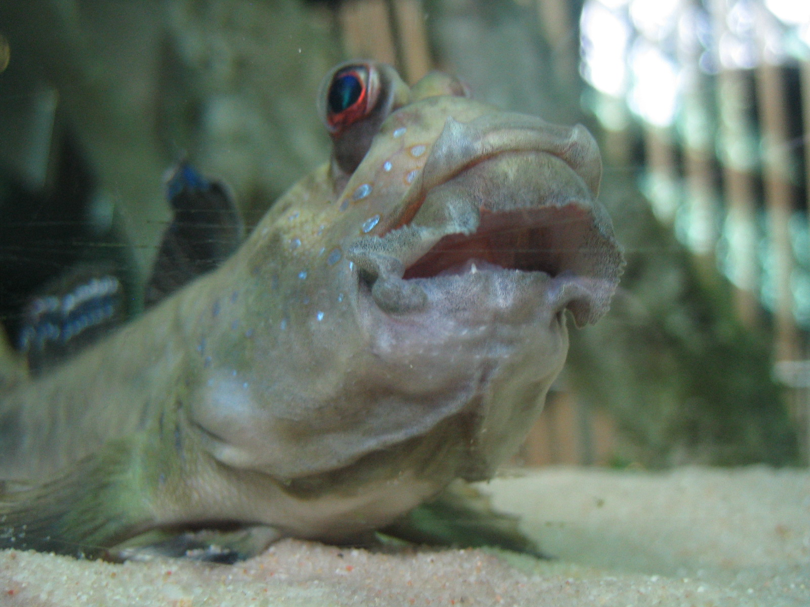 Periophthalmus sp.